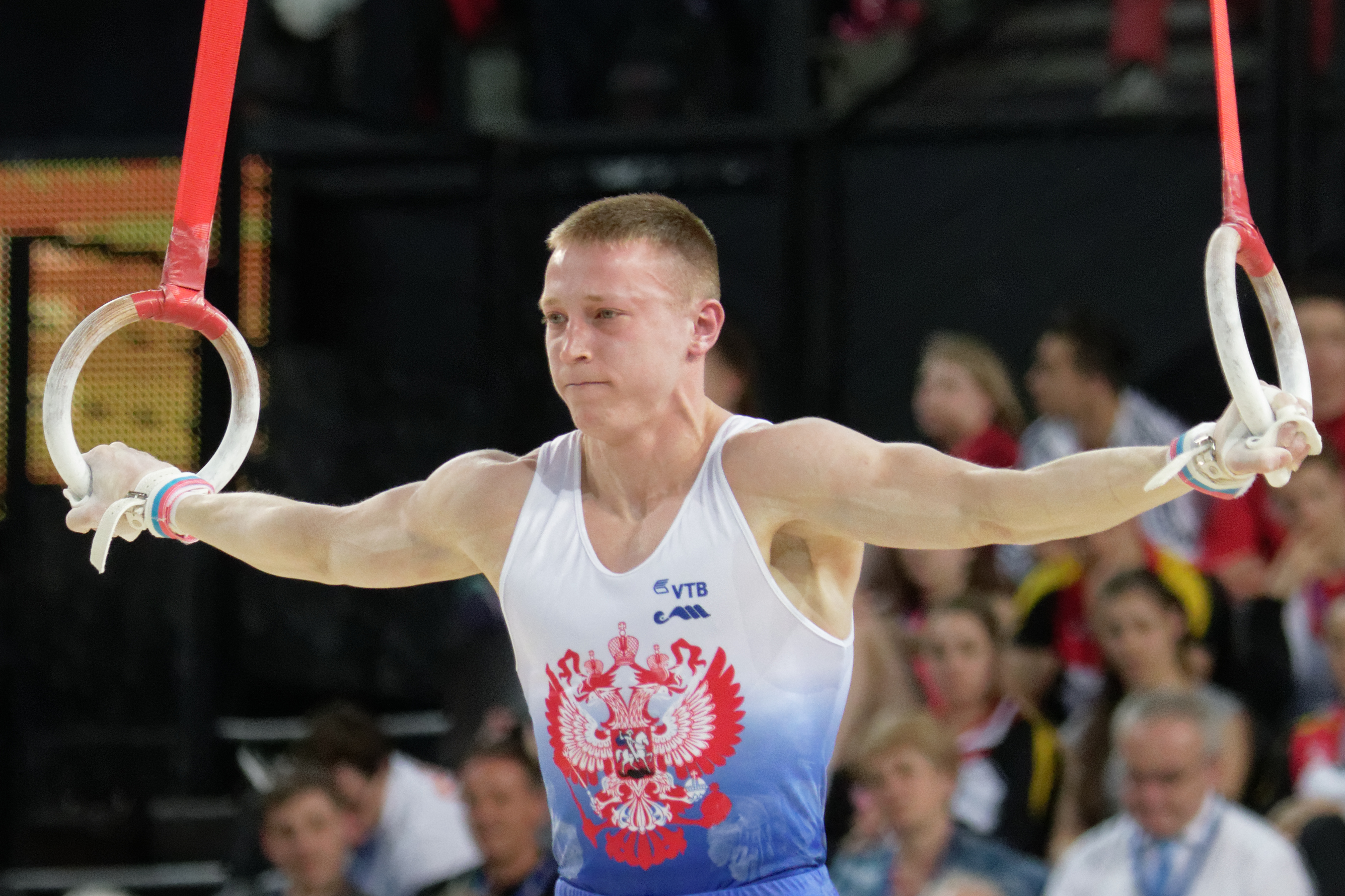 2015 European Artistic Gymnastics Championships. Rings.